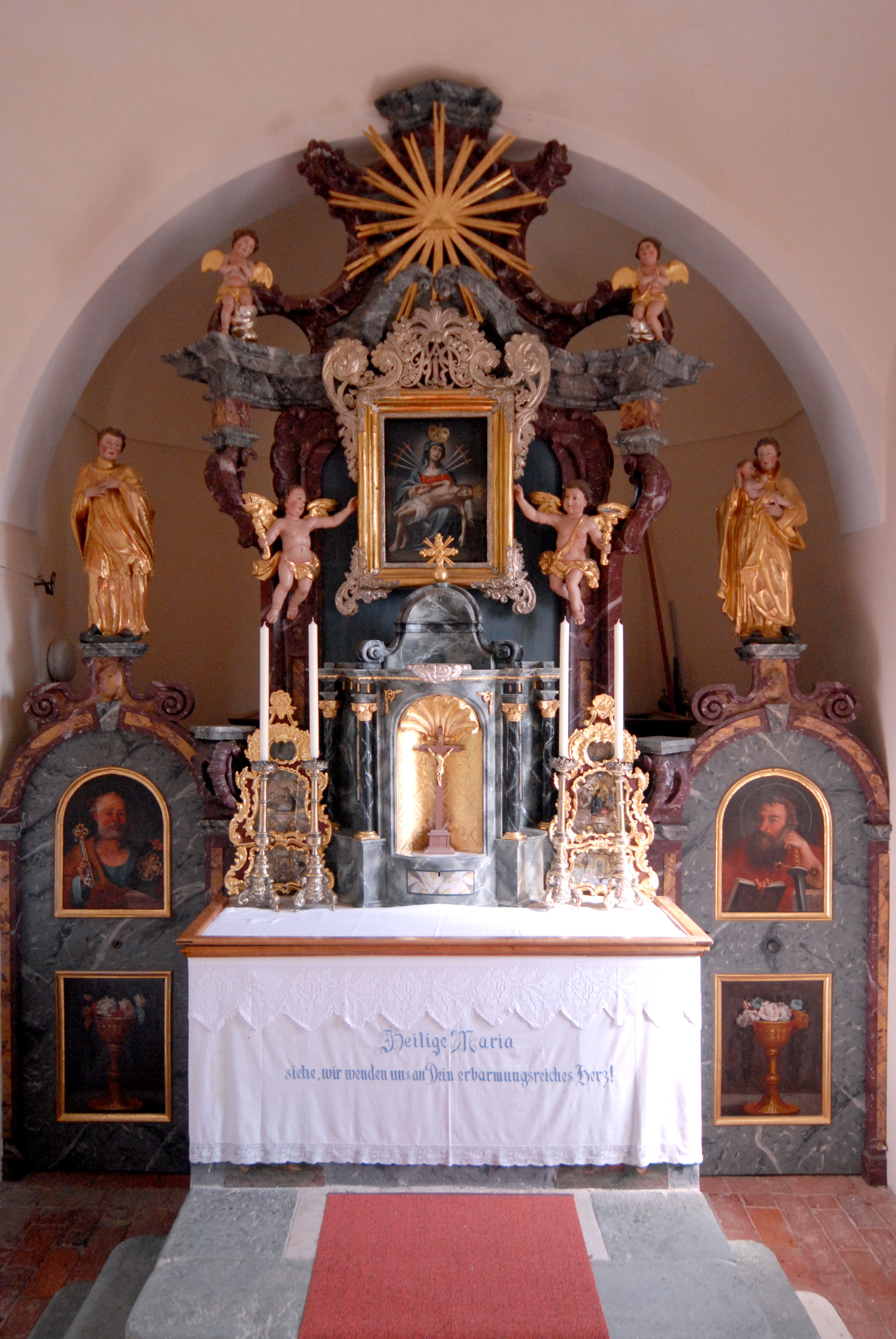 Altar in the church on top of Freudenberg in the community of Moosburg, district Klagenfurt-Land, Carinthia, Austria